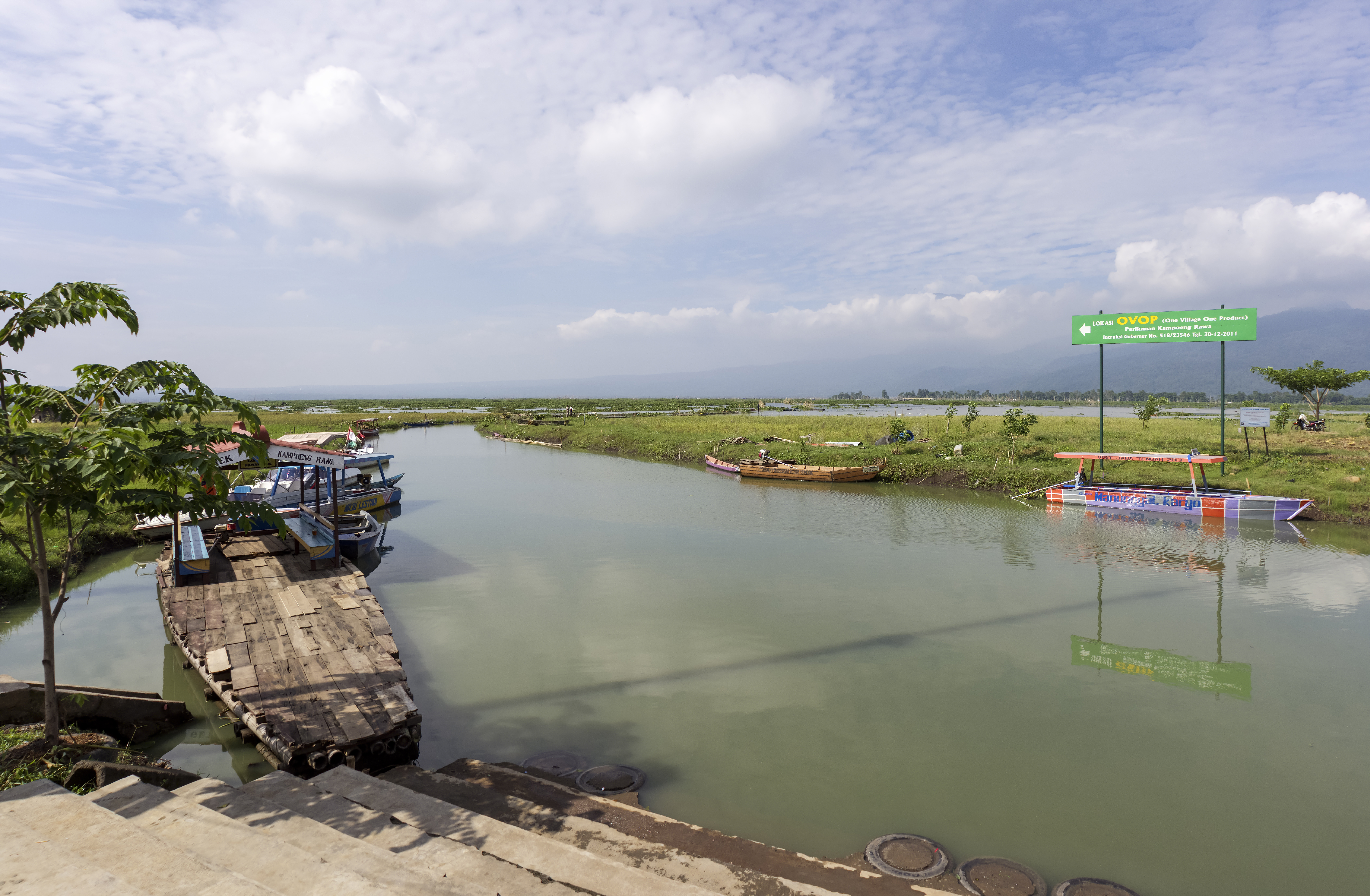 Panoramic view of dock at Kampung Rawa, 2014-06-21